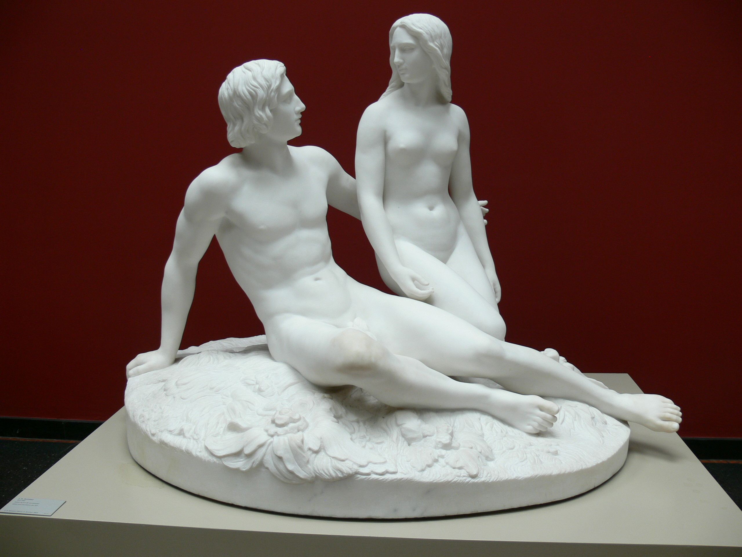 Ny Carlsberg Glyptothek, Copenhagen: "Adam and Eve before the Fall" ( 1863 ) by J.A.Jerichau